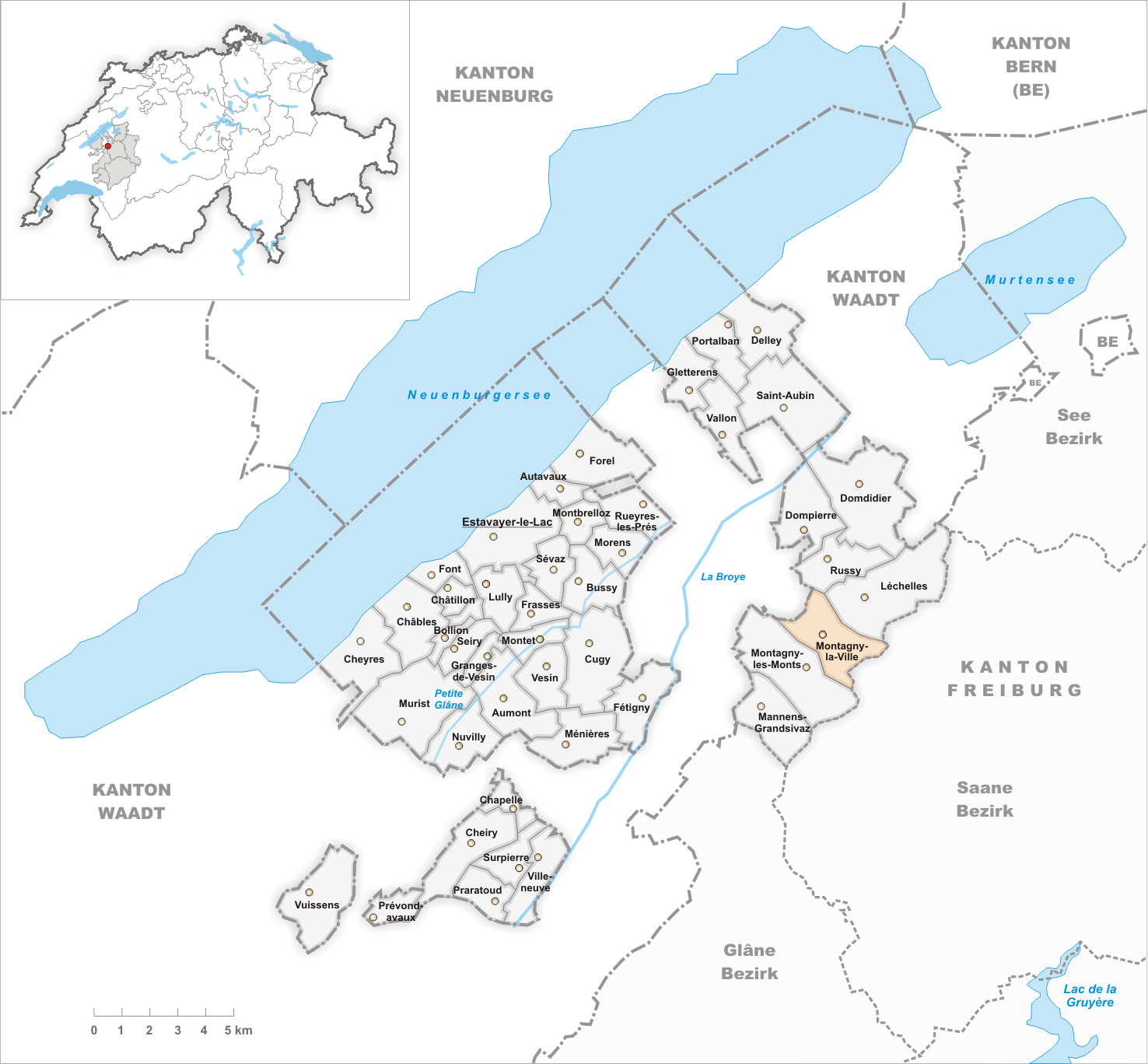 Municipality Montagny-la-Ville Artist: Tschubby